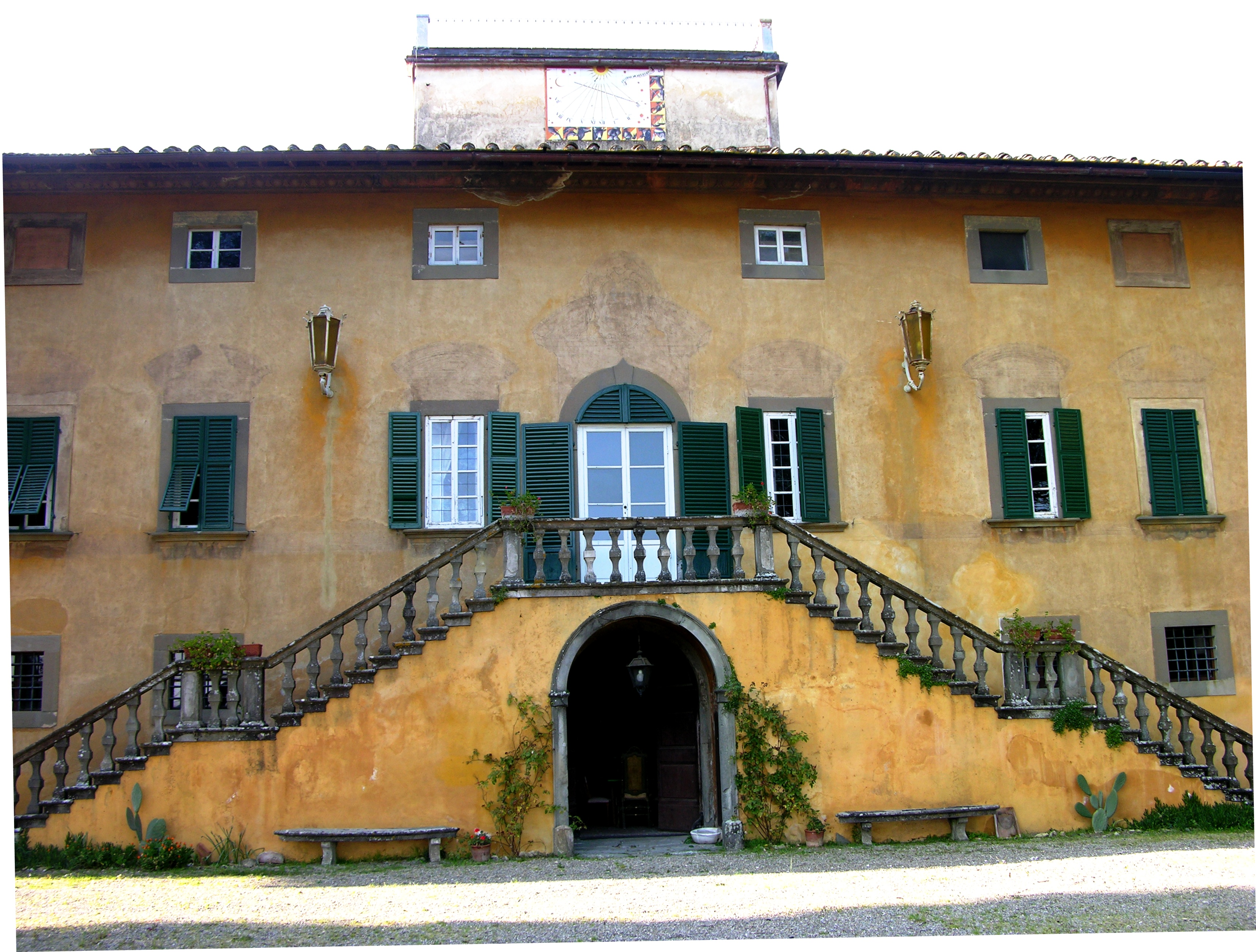 Crespina, Villa Corsini Valdisonzi